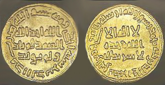 Picture of Umayyad Dinar, made of Gold and belong to the era of Omar ibn Abdelaziz caliph of Muslims in 720 AD